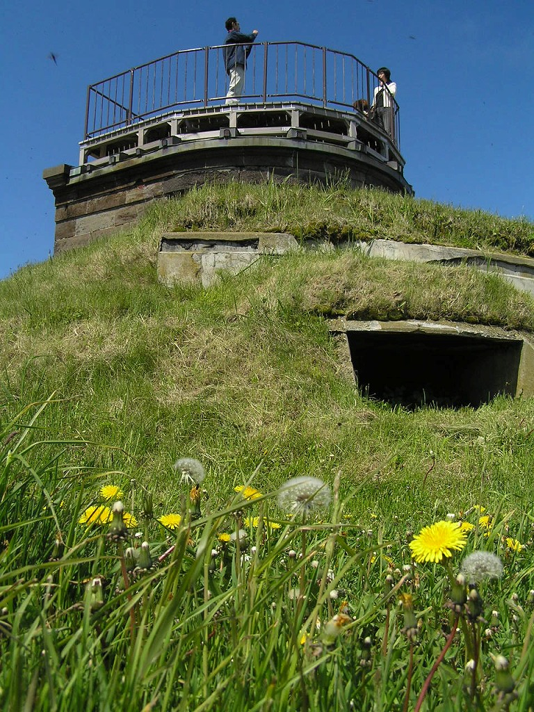 Ohmisaki kyu-kaigun-bourou; Hokkaido prefecture, Japan